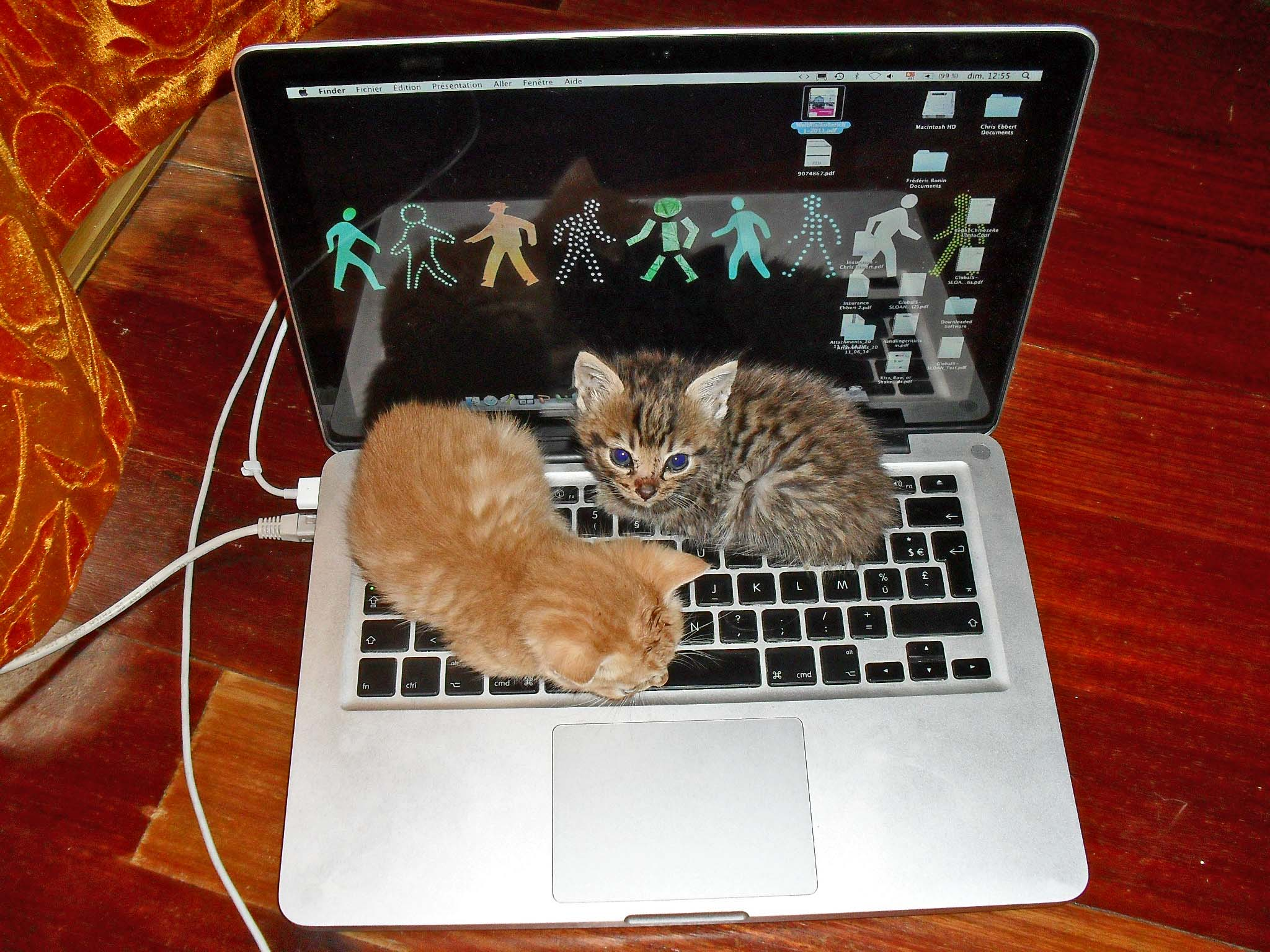 If you're getting strange emails from my account, here's why